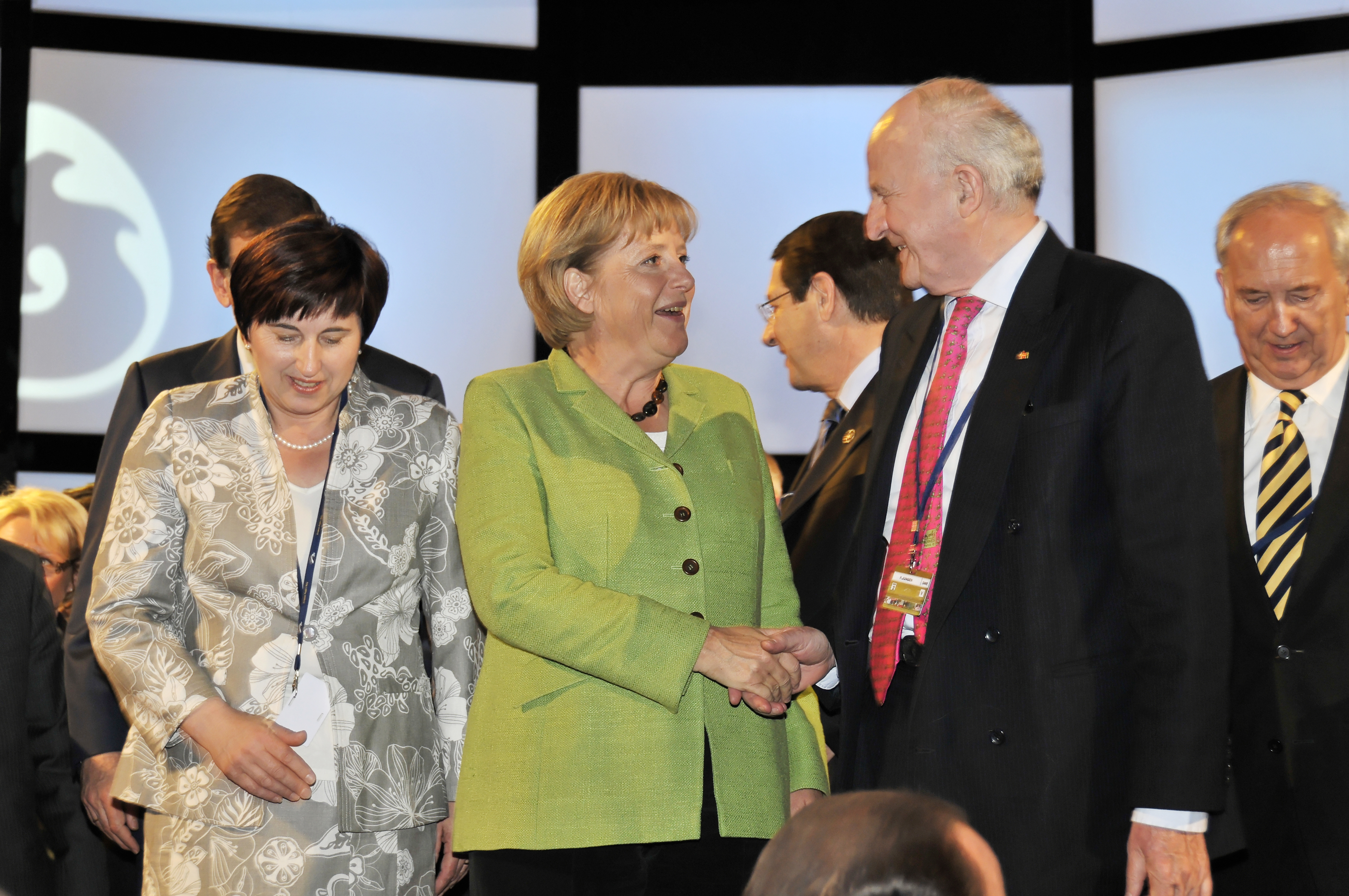 EPP Congress Warsaw